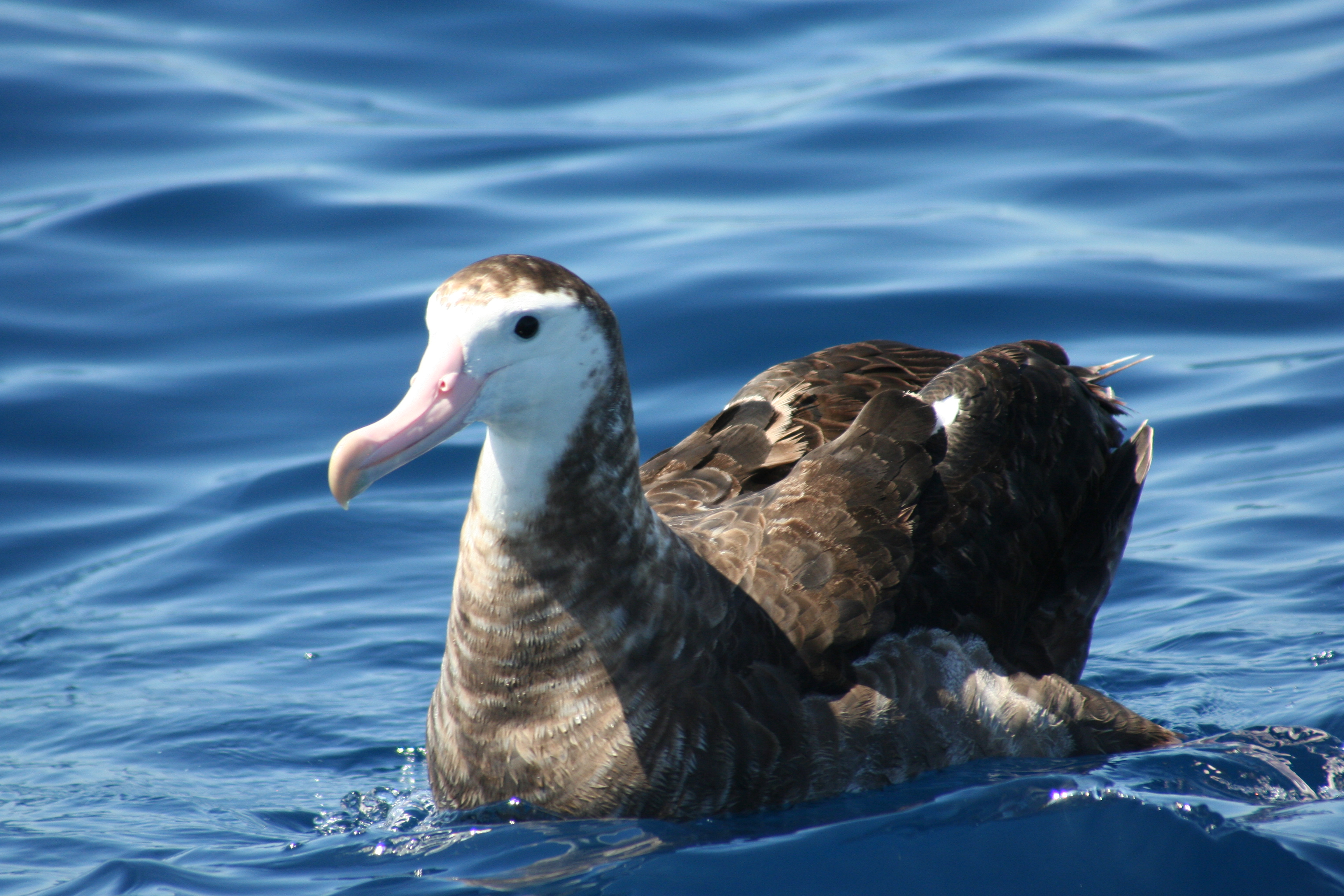 Gibson's Albatross (Diomedea antipodensis gibsoni). Subspecies of Antipodean Albatross, considered by some to be same species as Wandering Albatross